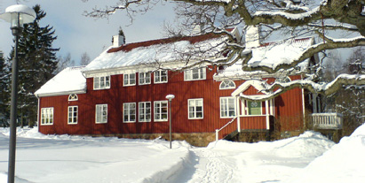 picture of Sorangens folkhogskola i Nassjo in Sweden.